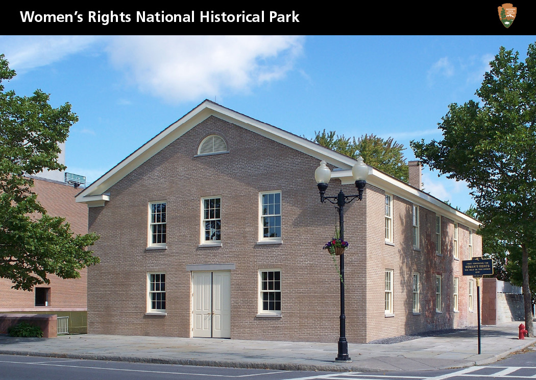 Rights for Women: “The Great Work Before Us” Built in 1843, the Wesleyan Chapel was the meeting place for the First Women’s Rights Convention held in 1848 in Seneca Falls, New York. The men and women in this convention adopted the Declaration of Sentiments, which declared 16 goals of equality for women including rights to vote and own property.